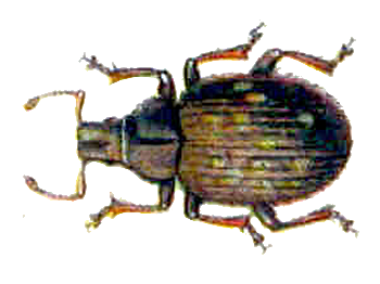 See image for index to numbers. Trachyphloeus laticollis Bohem. = Trachyphloeus laticollis Boheman, 1843, adult, dorsal view